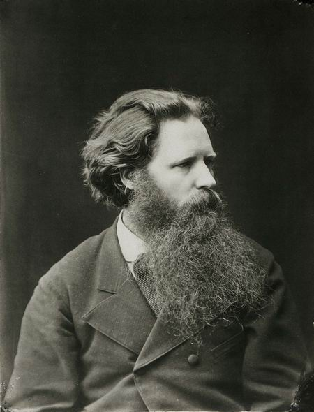 Portrait of Andrey Karelin (1837—1906).